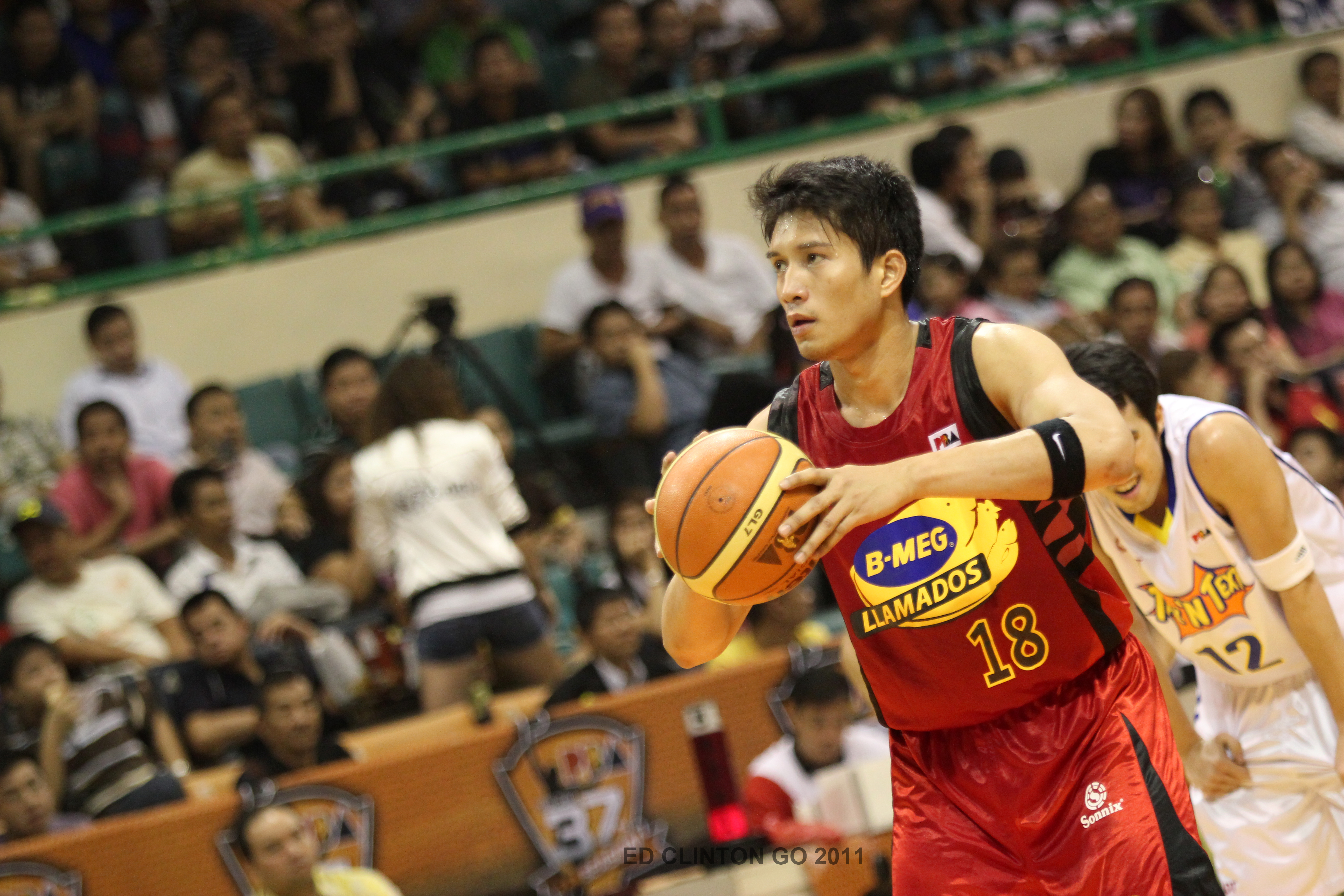 James Yap at the BMEG Llamados game VS Talk N' Text Tropang Texters last October 21, 2011 at Cuneta Astrodome, Pasay City.